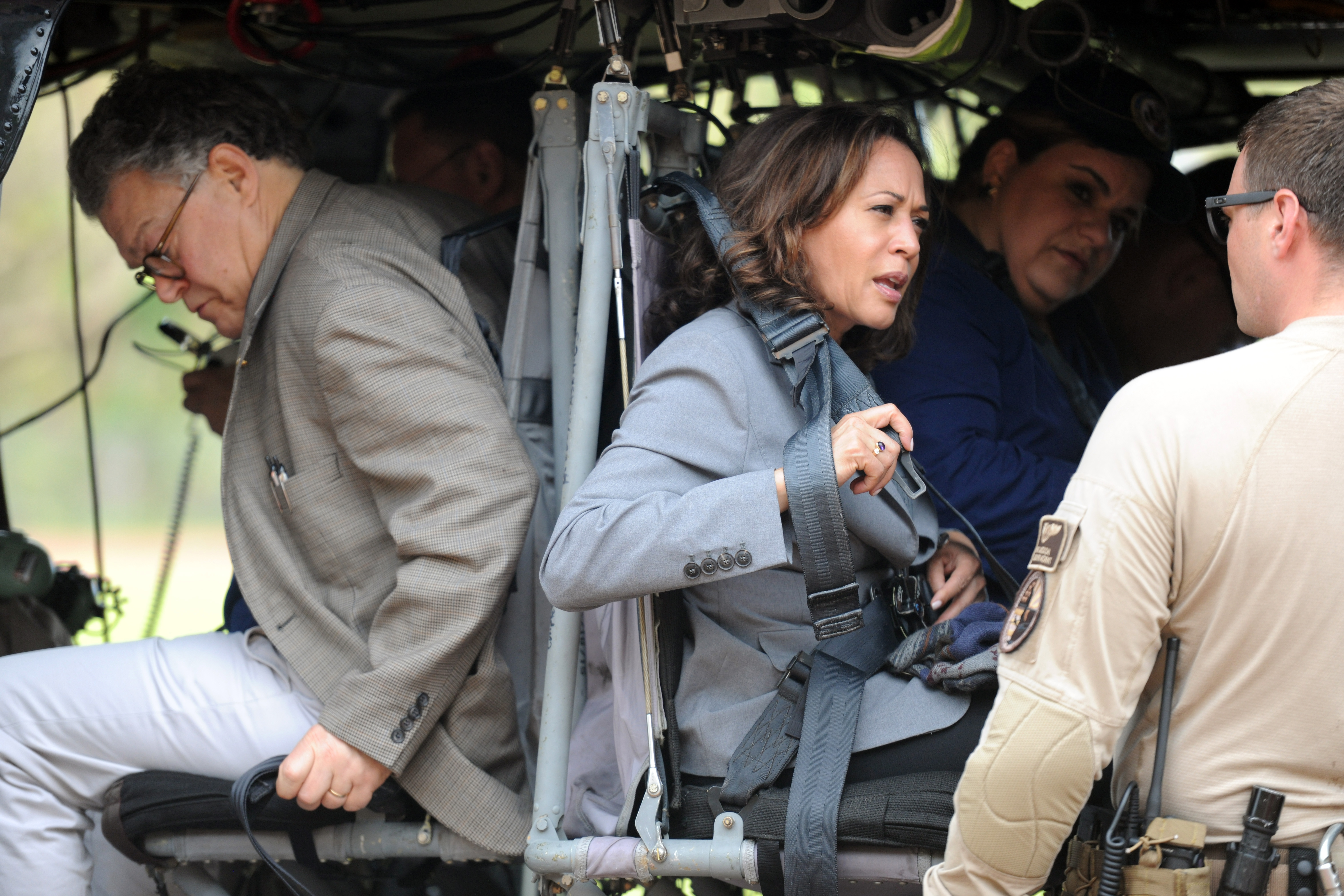 BARRANQUITAS, Puerto Rico – Sen. Kamala Harris (D-CA), flanked by Sen. Al Franken (D-MN) and Resident Commissioner Jenniffer Gonzalez-Colon (R-PR) board a UH-60 helicopter after a tour of this mountain municipality that suffered major damage during Hurricane Maria. Harris, along with eight others from both the House and Senate, were on a two-day visit to the U.S. Virgin Islands and Puerto Rico to see firsthand storm affected areas and ongoing relief efforts.